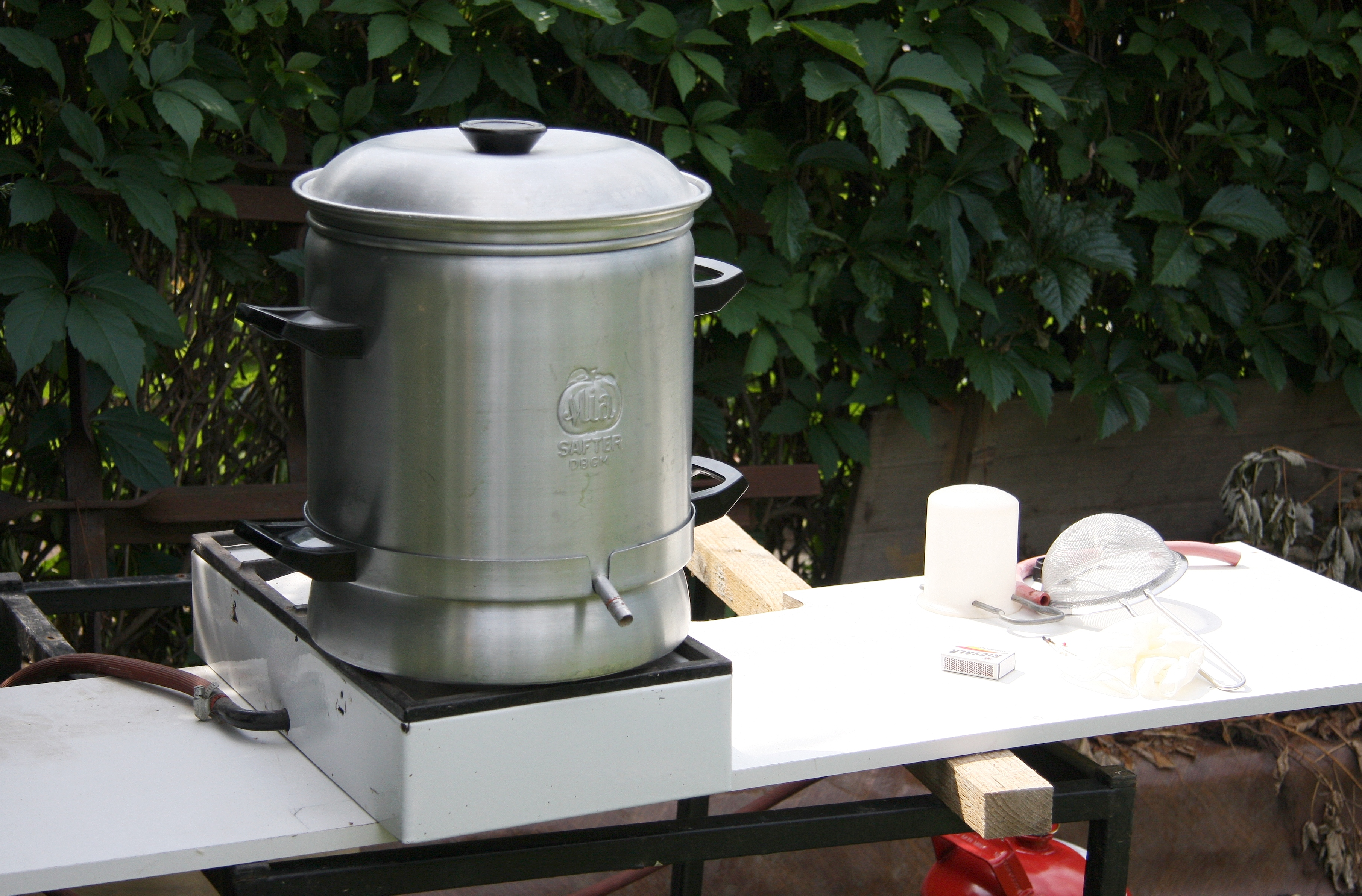 September 2010 Canon EOS 40D EF-S 17-85mm f/4-5.6 IS USM Creative Commons Licence BY 2.0 Quellenangabe / Credit: Photo by Maja Dumat - CC BY 2.0